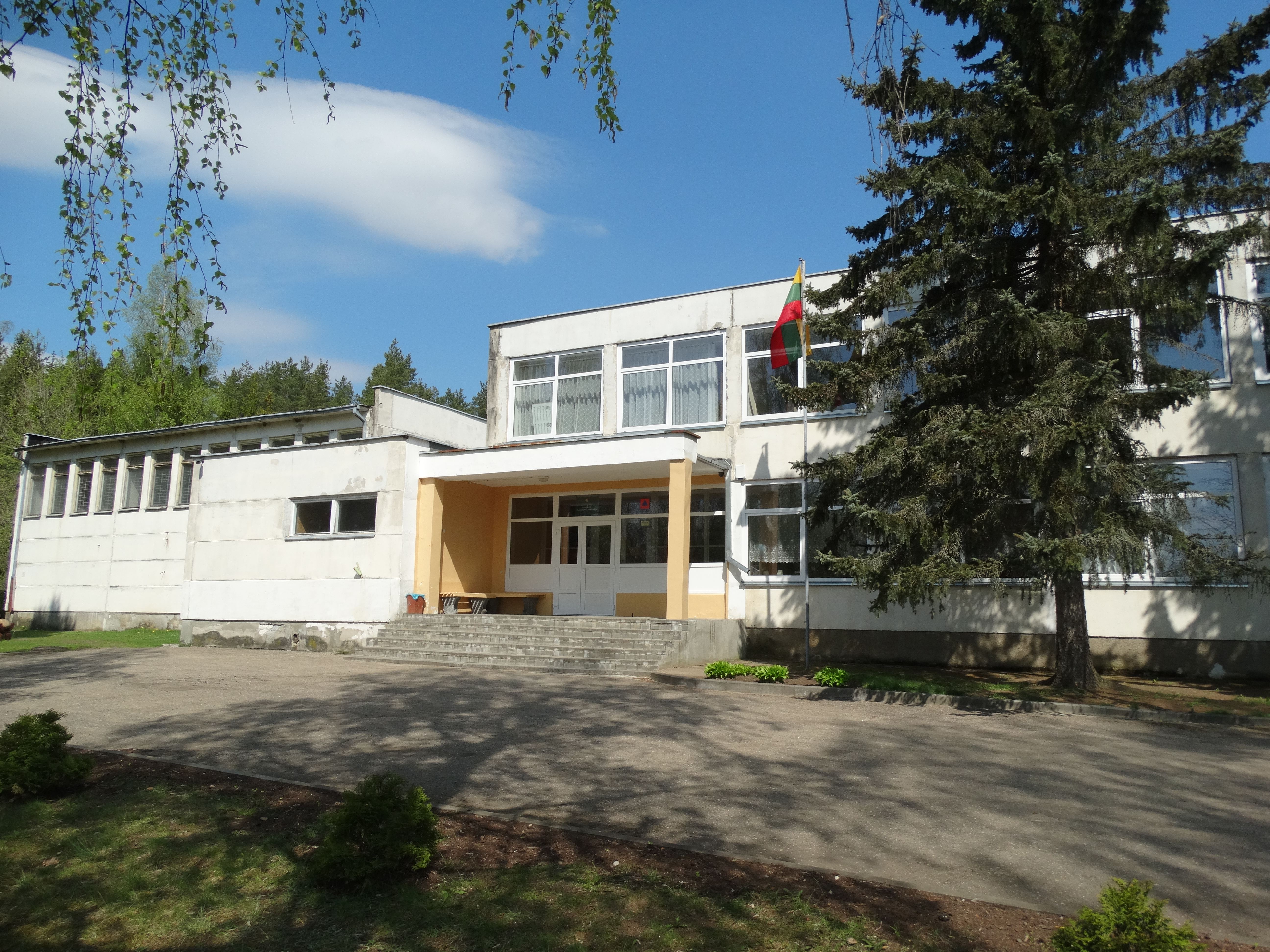 Basic school in Čiobiškis, Širvintos District, Lithuania